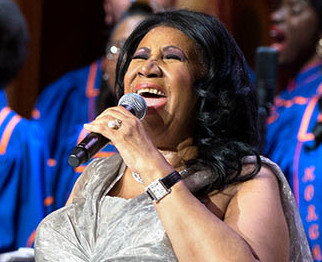 Aretha Franklin performs during "The Gospel Tradition: In Performance at the White House" in the East Room of the White House, April 14, 2015. (Official White House Photo by Pete Souza)